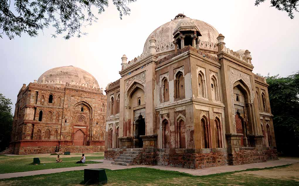 Tombs of Bade Khan, and Chhote Khan, Kotla Mubarakpur, Delhi.